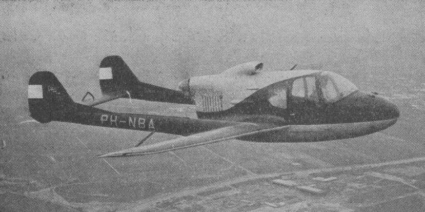 Fokker F.25 Promoter from L'Aerophile magazine August,1947